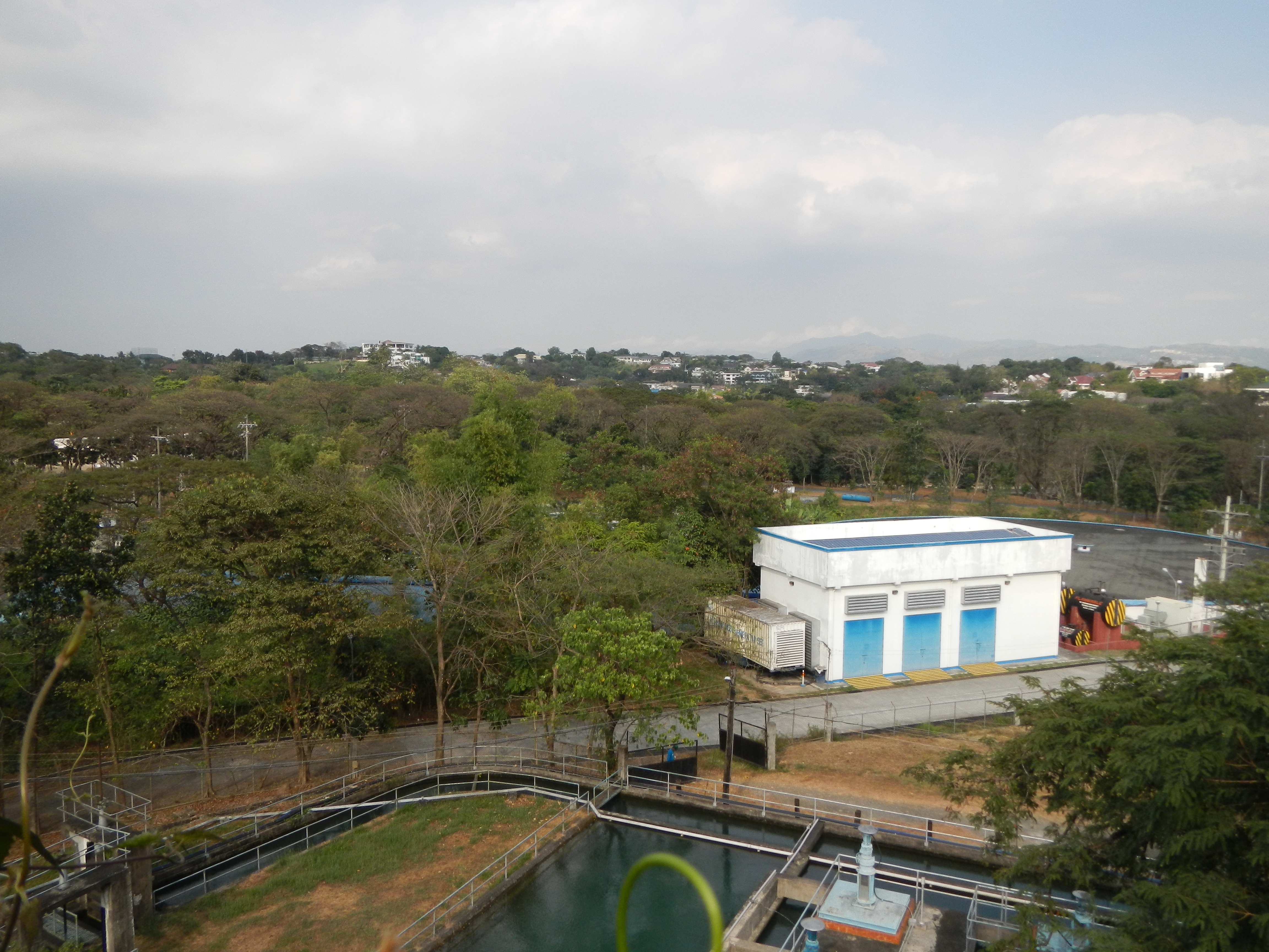 Photos of Balara Filters Park (Nature And Wildlife) - in Katipunan Extension, Diliman, Quezon City - or the Manila Water Lakbayan Cente is a 60 hectare property almost as big as Rizal Park dotted with vintage structures and statuary such as : an Italian Style Chapel, the Orosa Hall, Escoda Hall Swimming Pool, Balara Filtration Windmill, Children's Park, the MWSS Balara Water Reservoir and Filtration Plant, Water Drinking Treatment Plant this is part of the List of Art Deco architecture and List of parks in Manila. This park is managed and is under the exclusive jurisdiction of Metropolitan Waterworks and Sewerage System that is, Manila Water Water Delivery Sewerage [1] and Sanitation [2] at the Balara Treatment Plant, and also under Manila Water and finally by